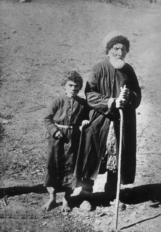 Last pagan priest Ingushetia Elmarz-hadji Khaoutiev (1766—1923) with great-great-granddaughter (village Shoani, Ingushetia, 1921 year)